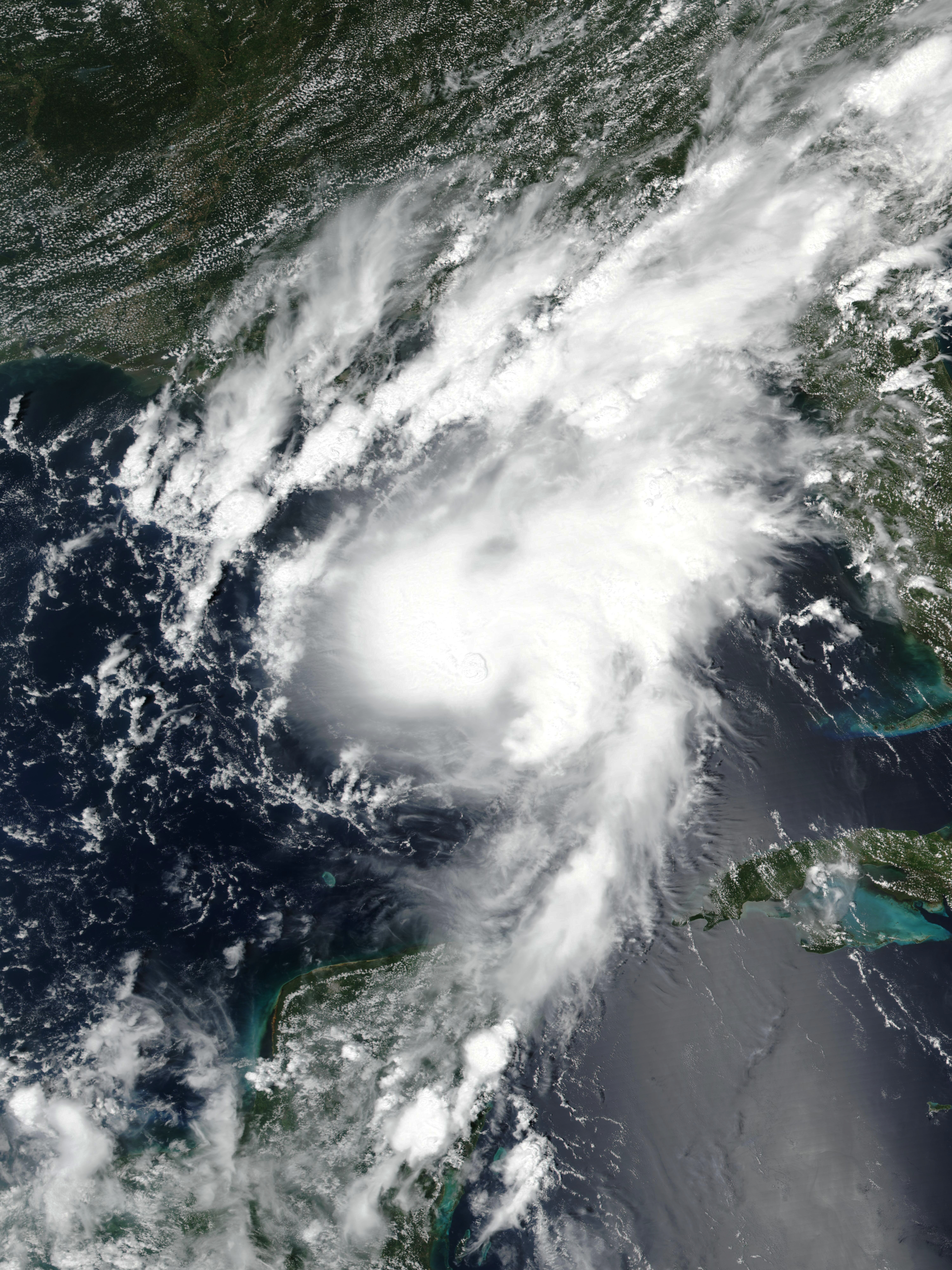 Hurricane Marco on August 23, 2020